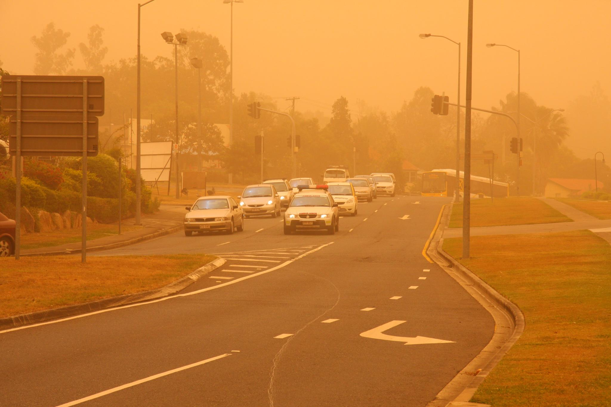 Today's dust storm viewed from Indooroopilly, Brisbane. The blue on the windscreens of all of the cars was very weird. There are no touch-ups, just in-camera saturation boost.